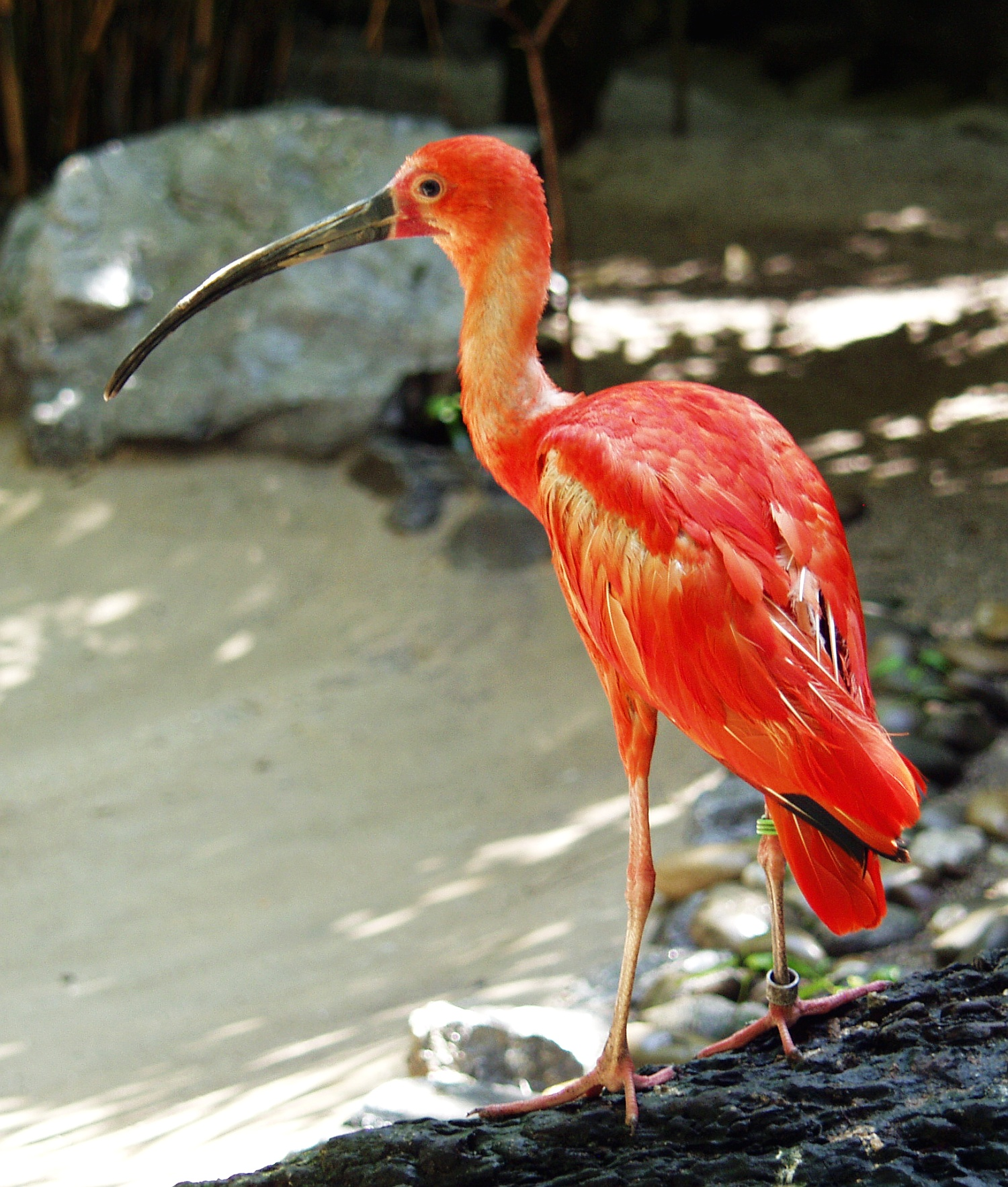 Eudocimus ruber - Scarlet Ibis - Guará at Zoo Duisburg, Germany